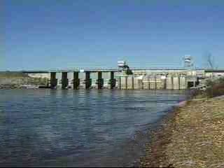 Photo By Mike Cline, December 9th, 1996